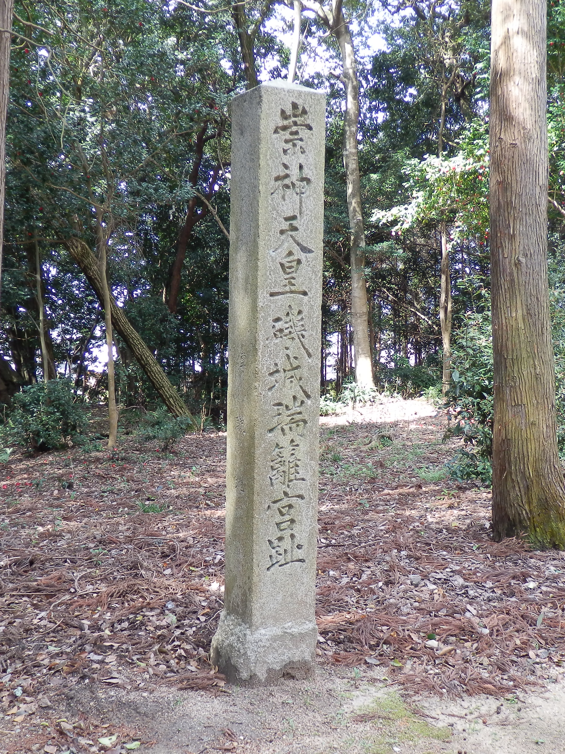 The legendary ruins of Emperor Sujin's Palace “Shiki-no-Mizukaki-no-Miya”, in Sakurai, Nara Prefecture, Japan